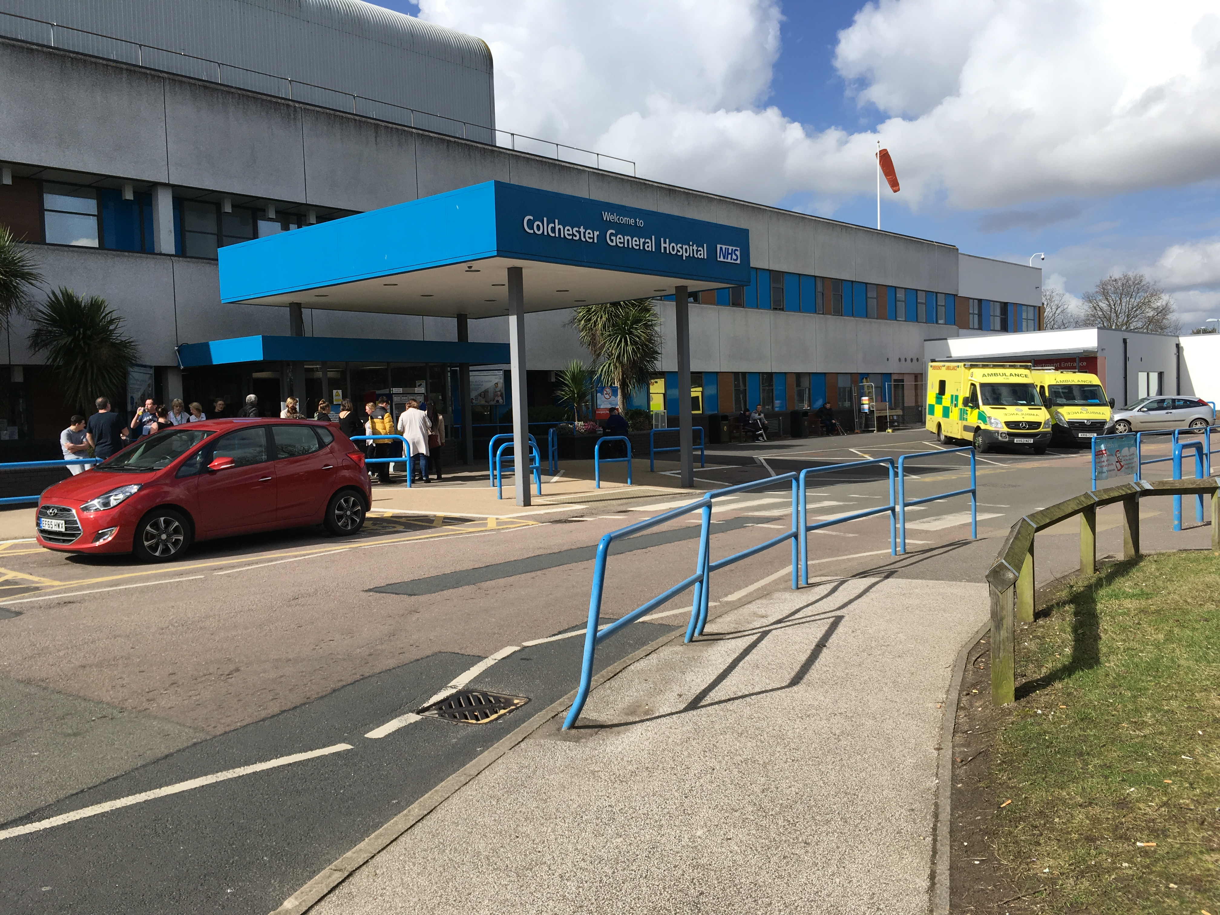 Colchester General Hospital front entrance